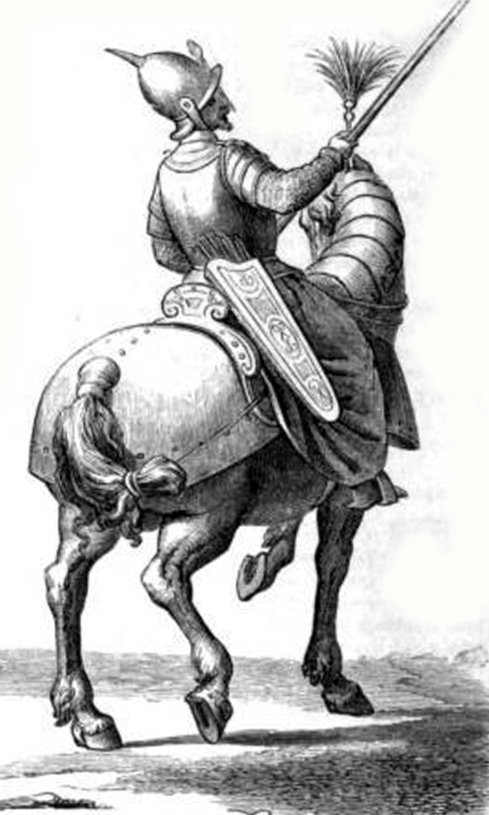 Beylerbey of Anatolia. Engraving by Cesare Vecellio.